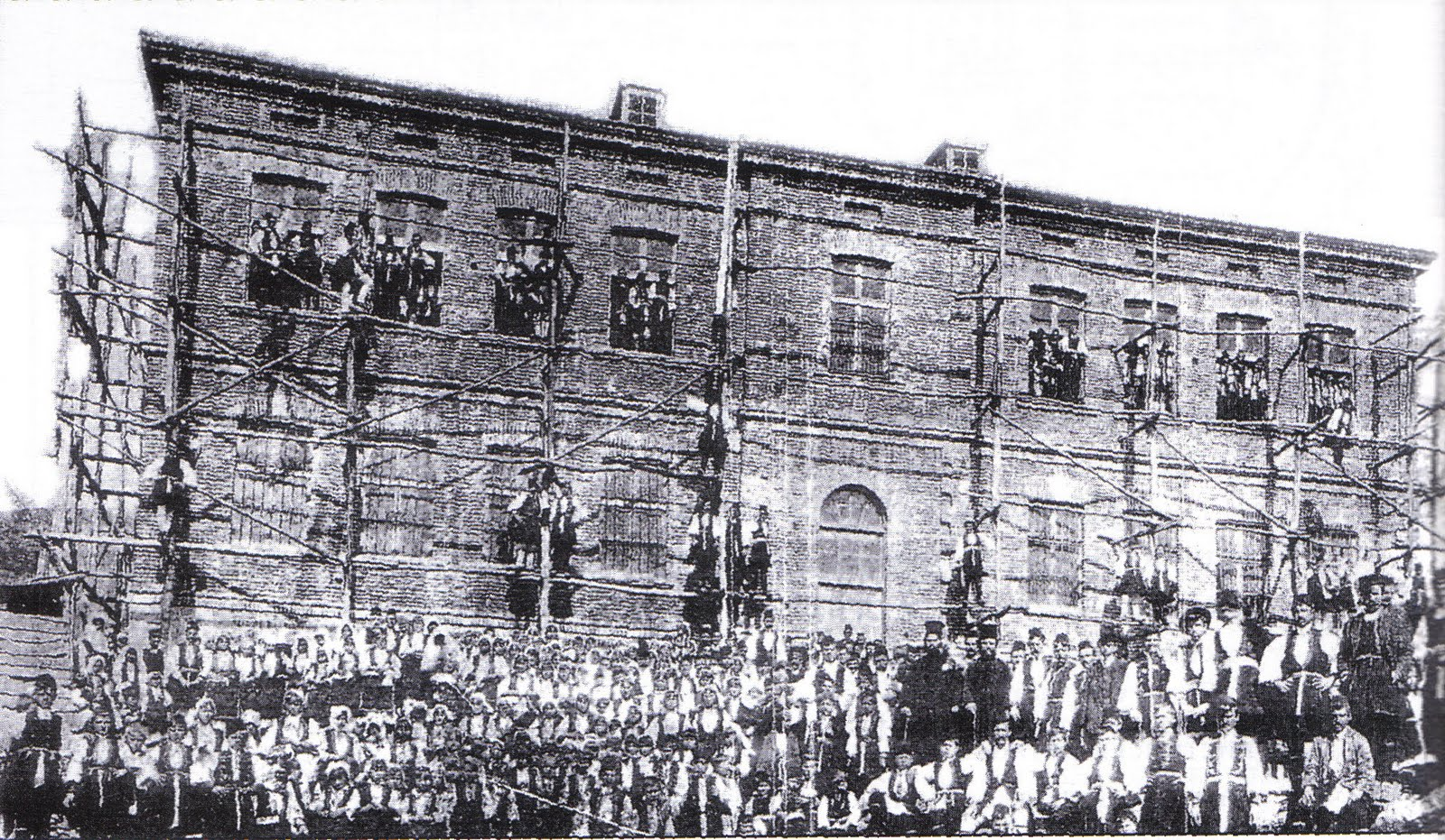 Building of bulgarian school in Buf - in progress (1908-1909)